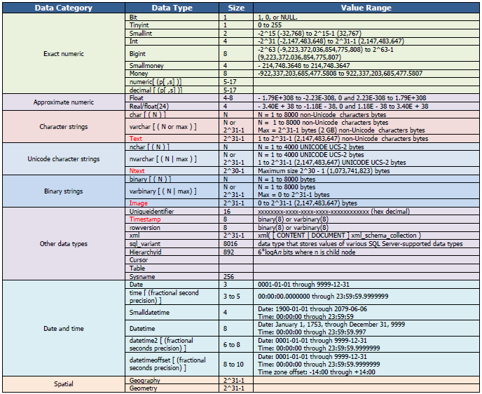 SQL өгөгдлийн төрлүүд